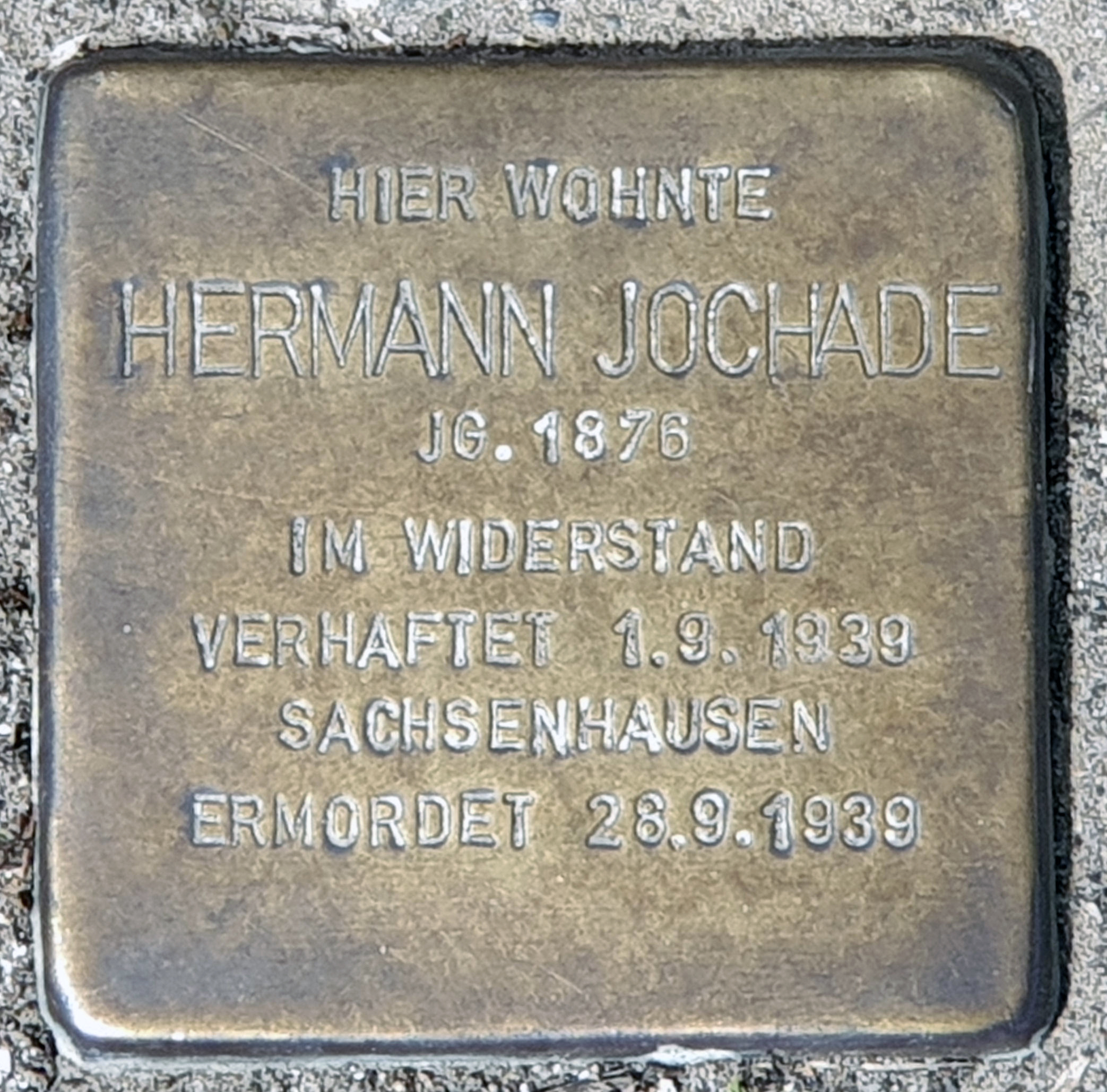 "Stolperstein" (stumbling block), Hermann Jochade, Grafenauer Weg 39, Berlin-Karlshorst, Germany